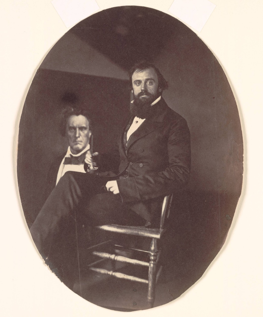 (from description) This compelling self-portrait and the adjacent candid picture of his wife are the most significant and moving images in Johnson's personal photography album containing work by him and other distinguished photographers. For this appealing composition, he seated himself in a plainly appointed studio in front of one of his painted portraits placed on the floor. The position of the chair and his body add vitality to the image. Clearly a master of lighting, Johnson carefully controlled the natural illumination so that his face and hands were in brilliant contrast to his dark clothes and the dimly lit room. In this self-portrait, he successfully expressed both the sitter's strength of personality and character.